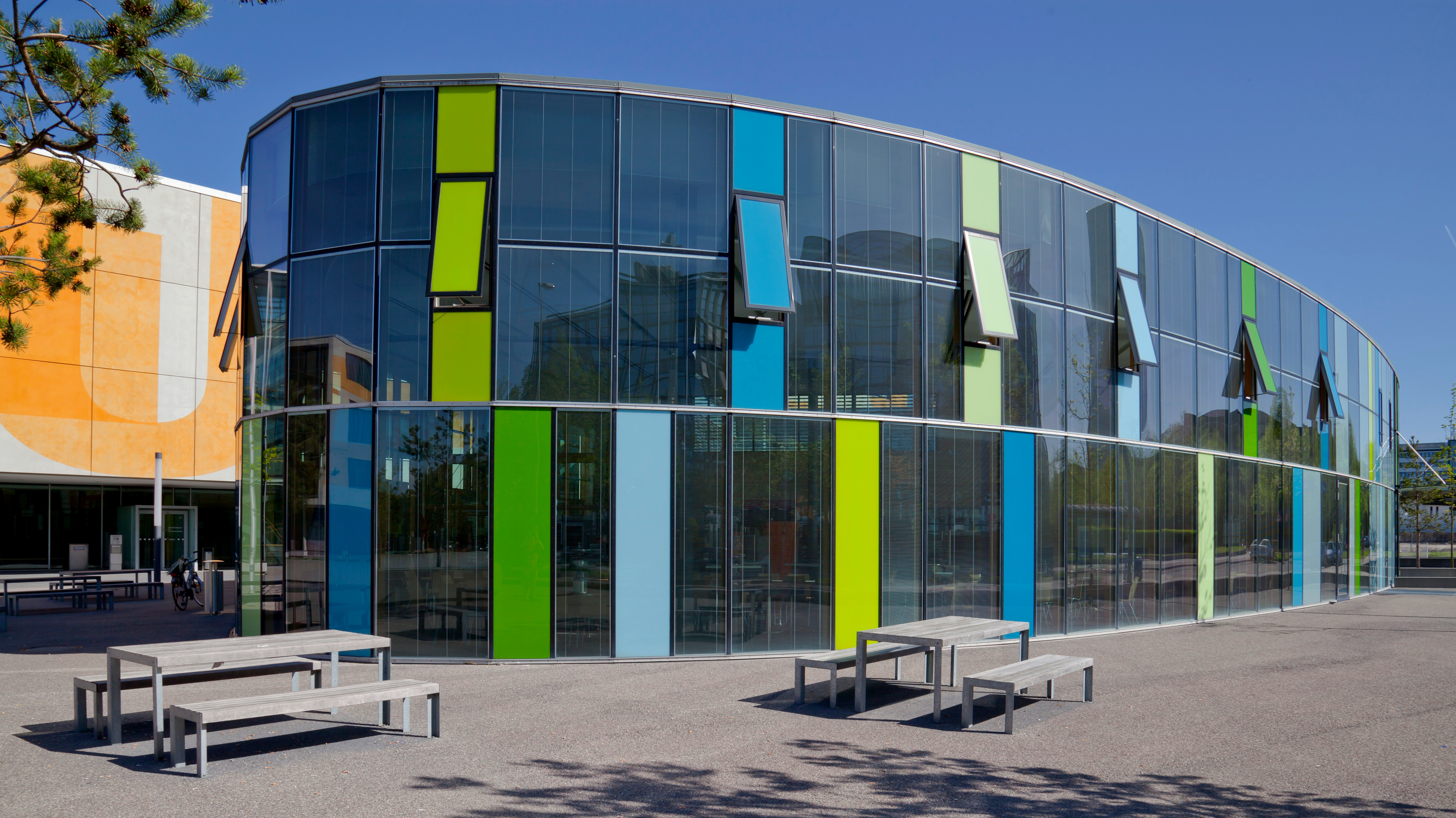 University cafeteria of the Technical University, Munich, Germany